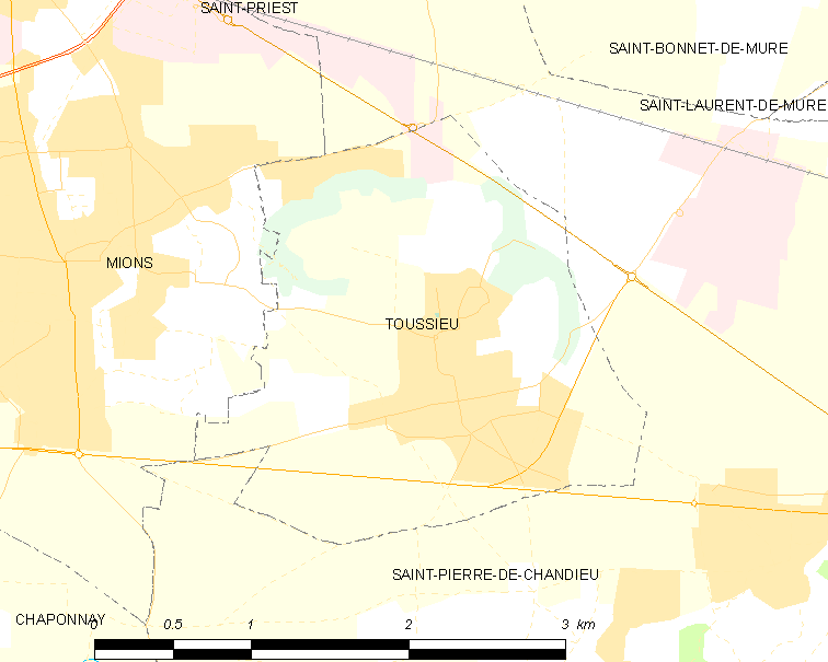 Map of French municipality